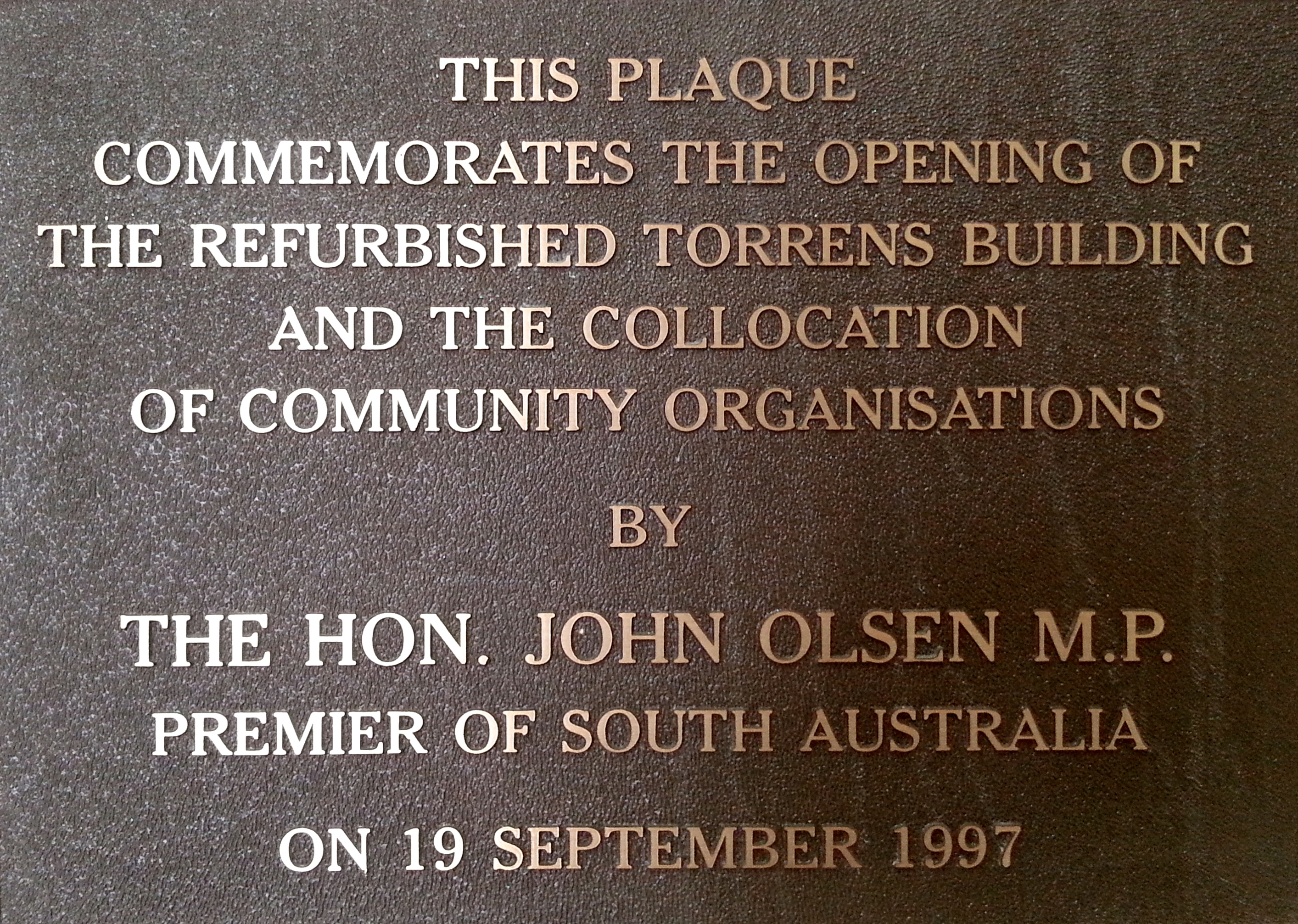 Photograph of a plaque commemorating the 1997 reopening of the Torrens Building, Adelaide, South Australia